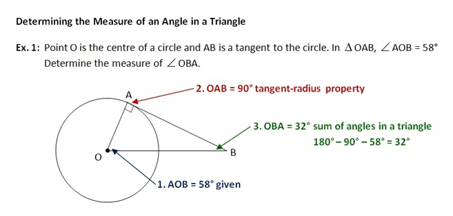 This is a geometry worked example designed to be used in the Wikipedia entry for Worked-example effect.